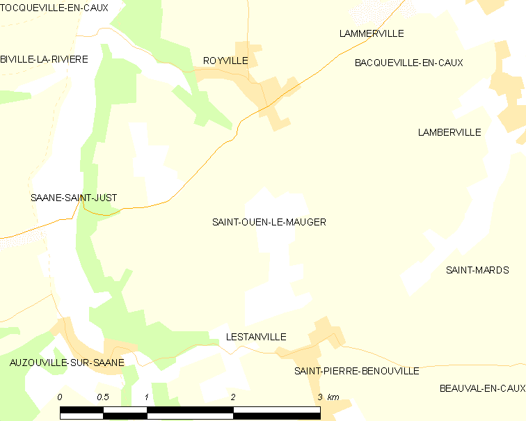 Map of French municipality Saint-Ouen-le-Mauger